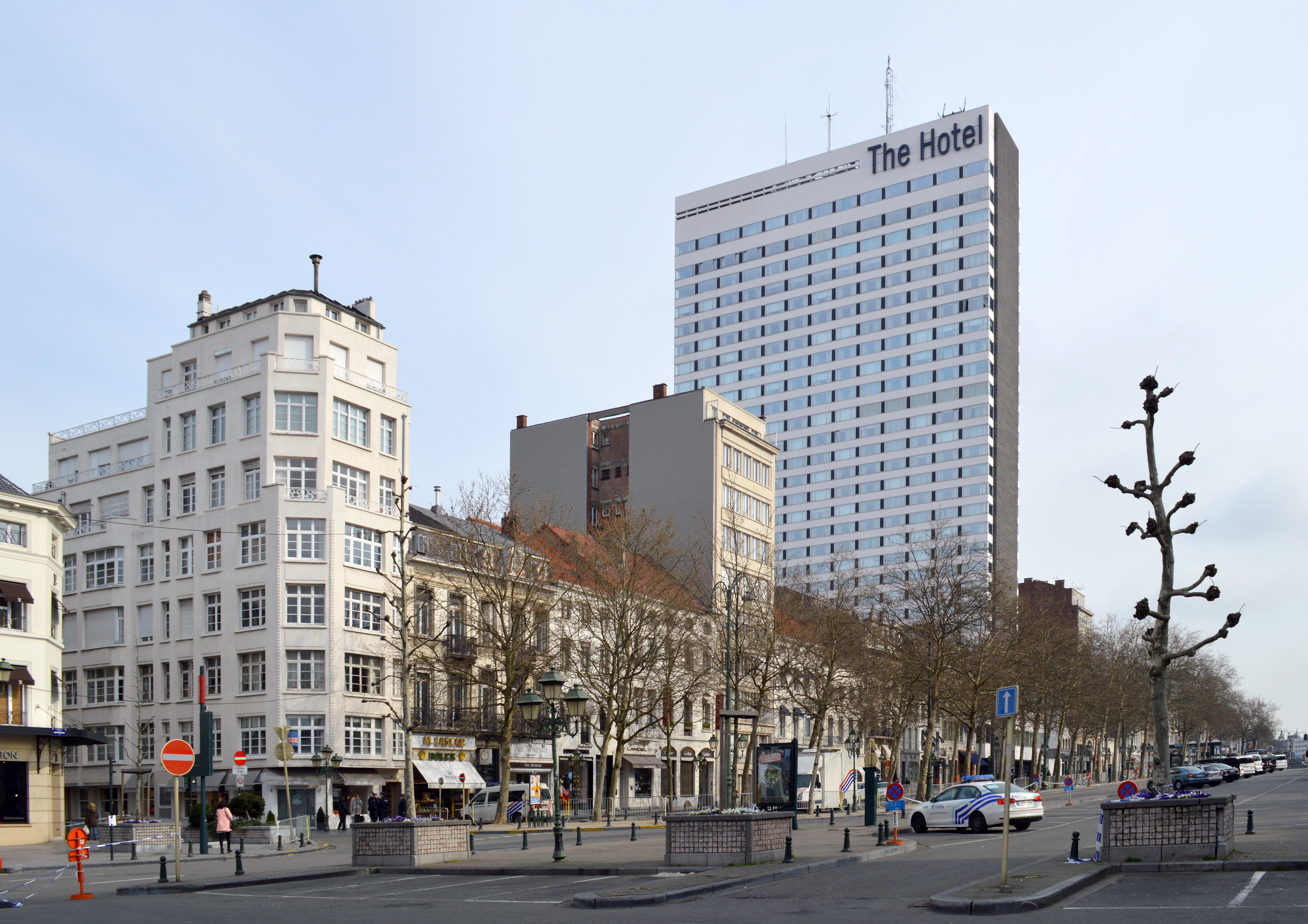 View of 'The Hotel Brussels' from the Louiza roundabout in Brussels, on the day president Obama stayed in Brussels.